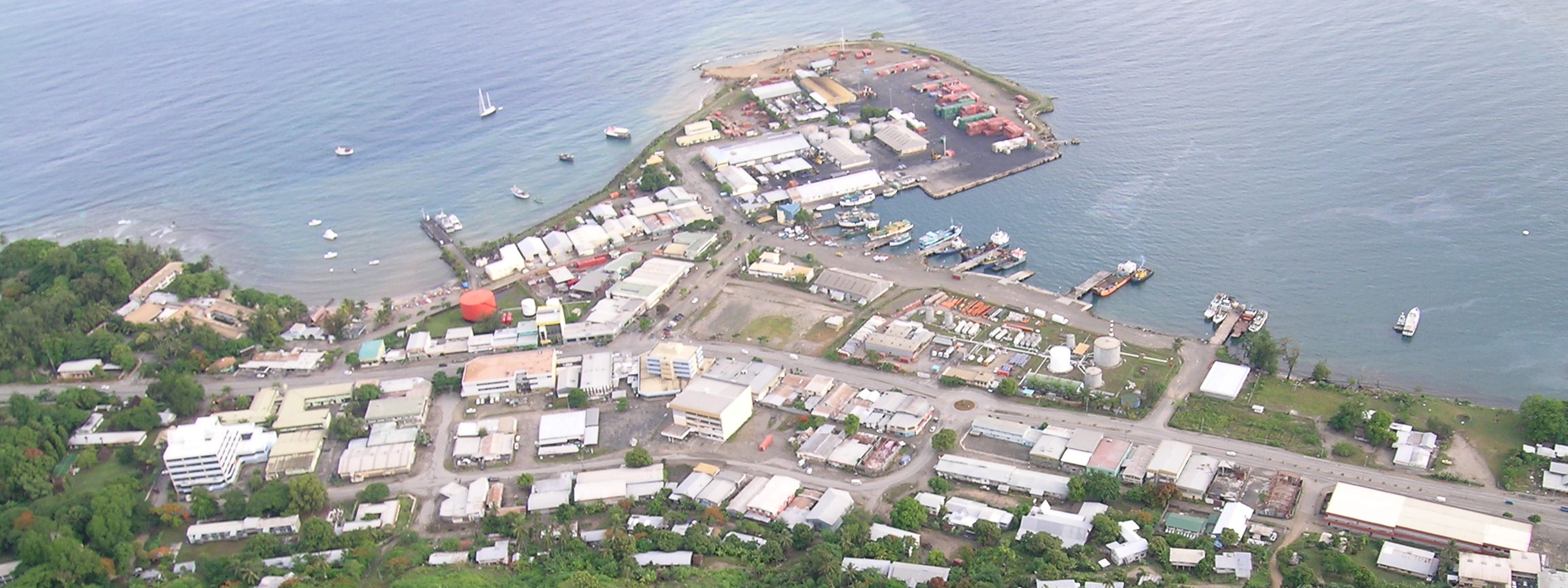 Aerial photo of Rove Police HQ and corrections centre